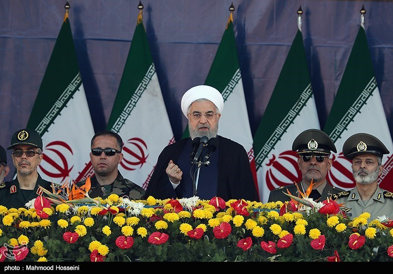 Iranian President Hasan Rohani during the military parade commemorating the Iran-Iraq War